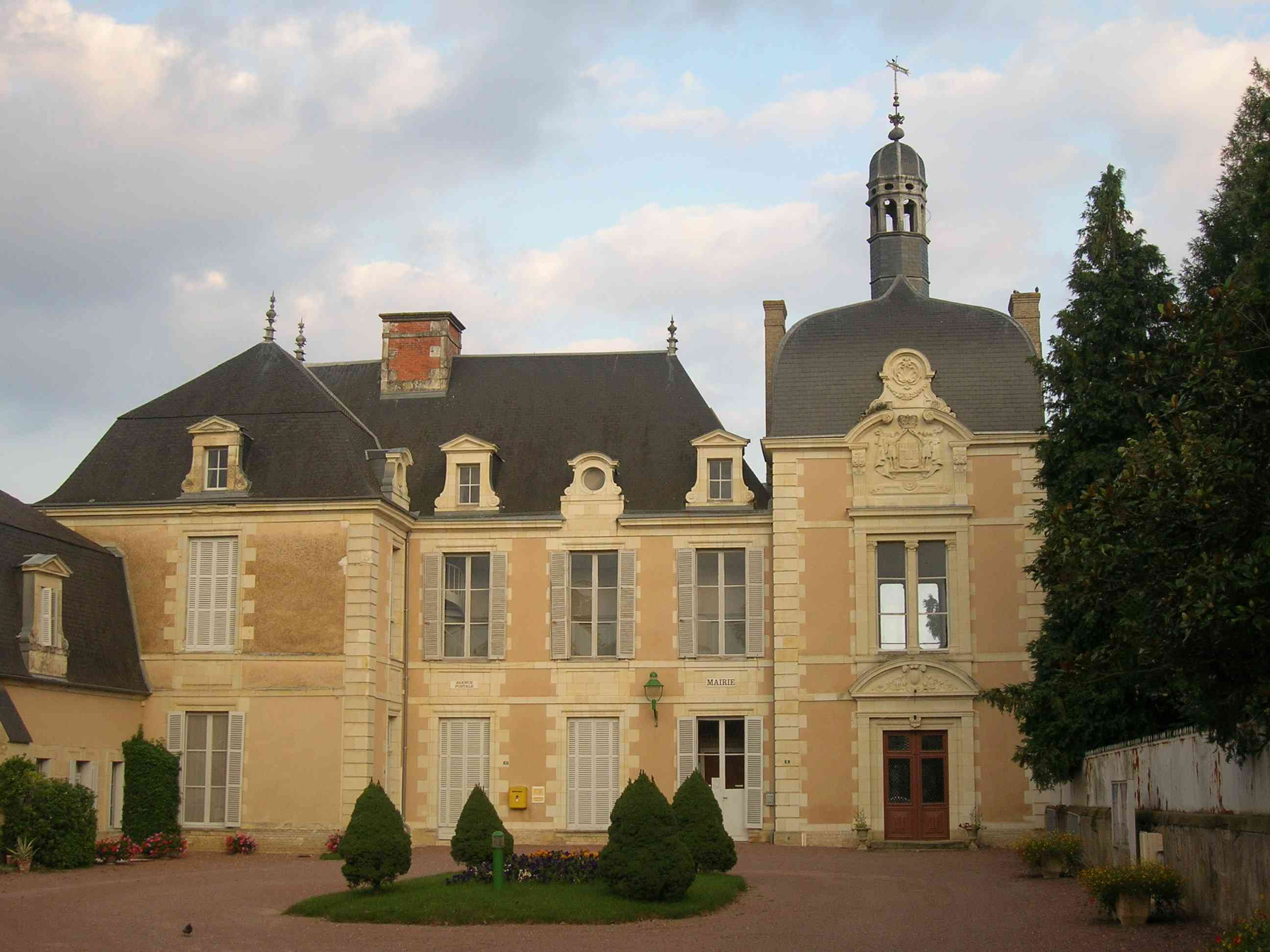 Castle of Angliers